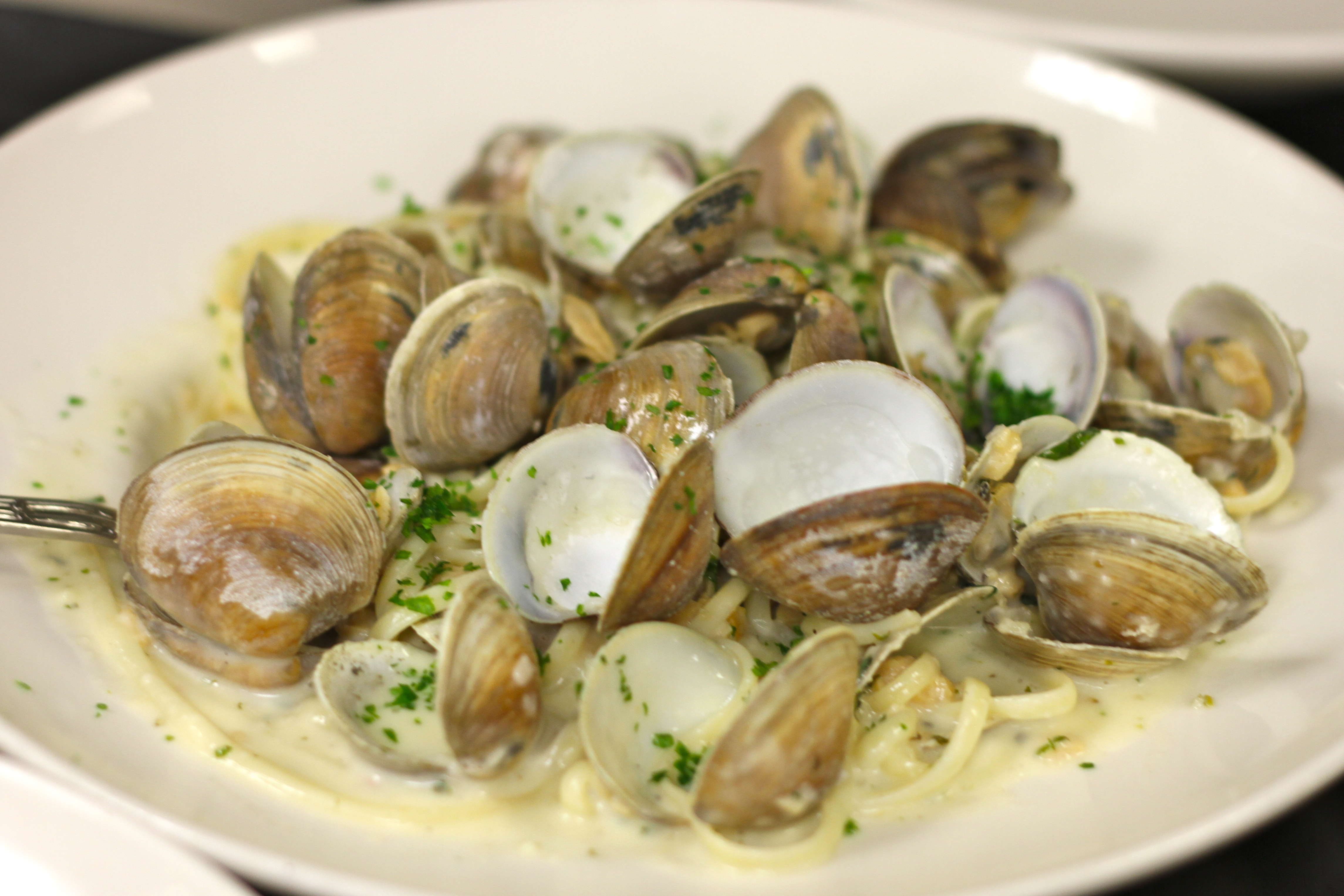 Linguini & Clams with Fresh herbs, White Wine, & Little Neck Clams, served family style